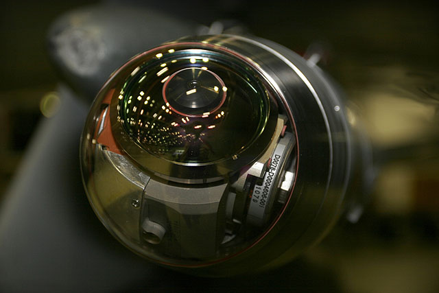 Infrared Imaging Head of an IRIS-T.